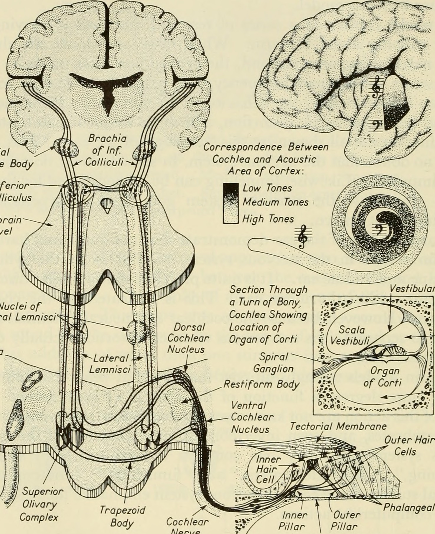 Title: Biophysical science Year: 1962 (1960s) Authors: Ackerman, Eugene, 1920- Subjects: Biophysics Publisher: Englewood Cliffs, N. J. , Prentice-Hall Text Appearing Before Image: 114 Neural Mechanisms of Hearing/ 6 : 4 enter the brain; it is often called the eighth cranial nerve. As shown in Figure 7, several additional synapses occur within the brain stem. Some of the pulses cross over to the opposite half of the brain stem so Medial Geniculate Body Ihferior- Colliculus Midbrain- Level Nuclei of Lateral Lemnisci Medulla, Level Text Appearing After Image: Vestibular Membrane .Cochlear Duct .Sea la Tympani Olivary Complex Cochlear Nerve Inner \ 'Outer Pillar \ Pillar Basilar Membrane Phalangeal Cells Figure 7. Auditory pathways of the central nervous system. Copyright The CIBA Collection of Medical Illustrations, by Frank H. Netter, M.D., Vol. I, "The Nervous System," 1953. that those starting at either ear are represented in both halves of the brain. Finally, at least in unconscious animals, the pulses are con- ducted to specific areas on the surface of the temporal lobes of the cerebral hemisphere. This latter projection is believed to be necessary for conscious hearing. In humans and other primates, this auditory area on the temporal